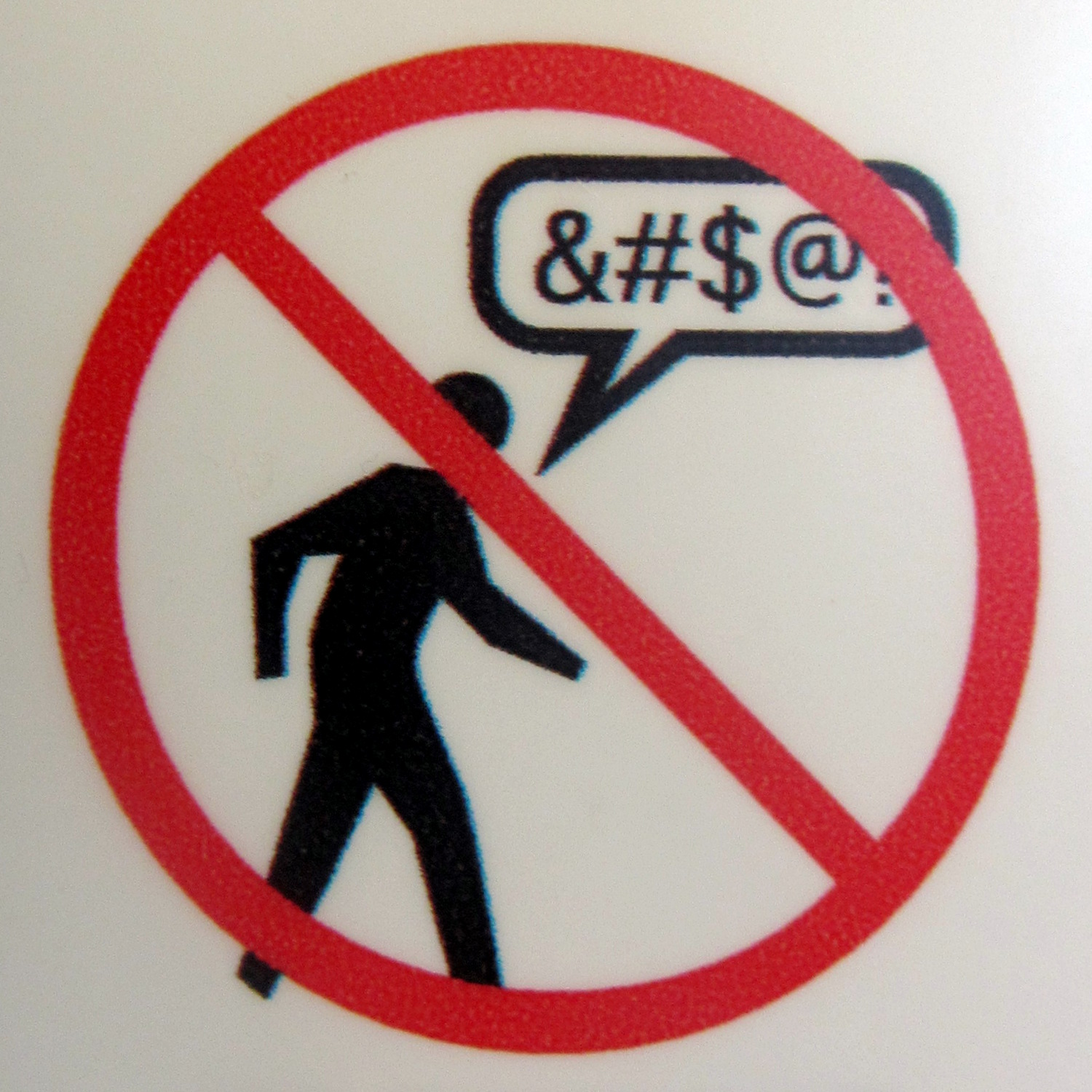 "No swearing" sign on the Trax LRT in Salt Lake City. &#$@